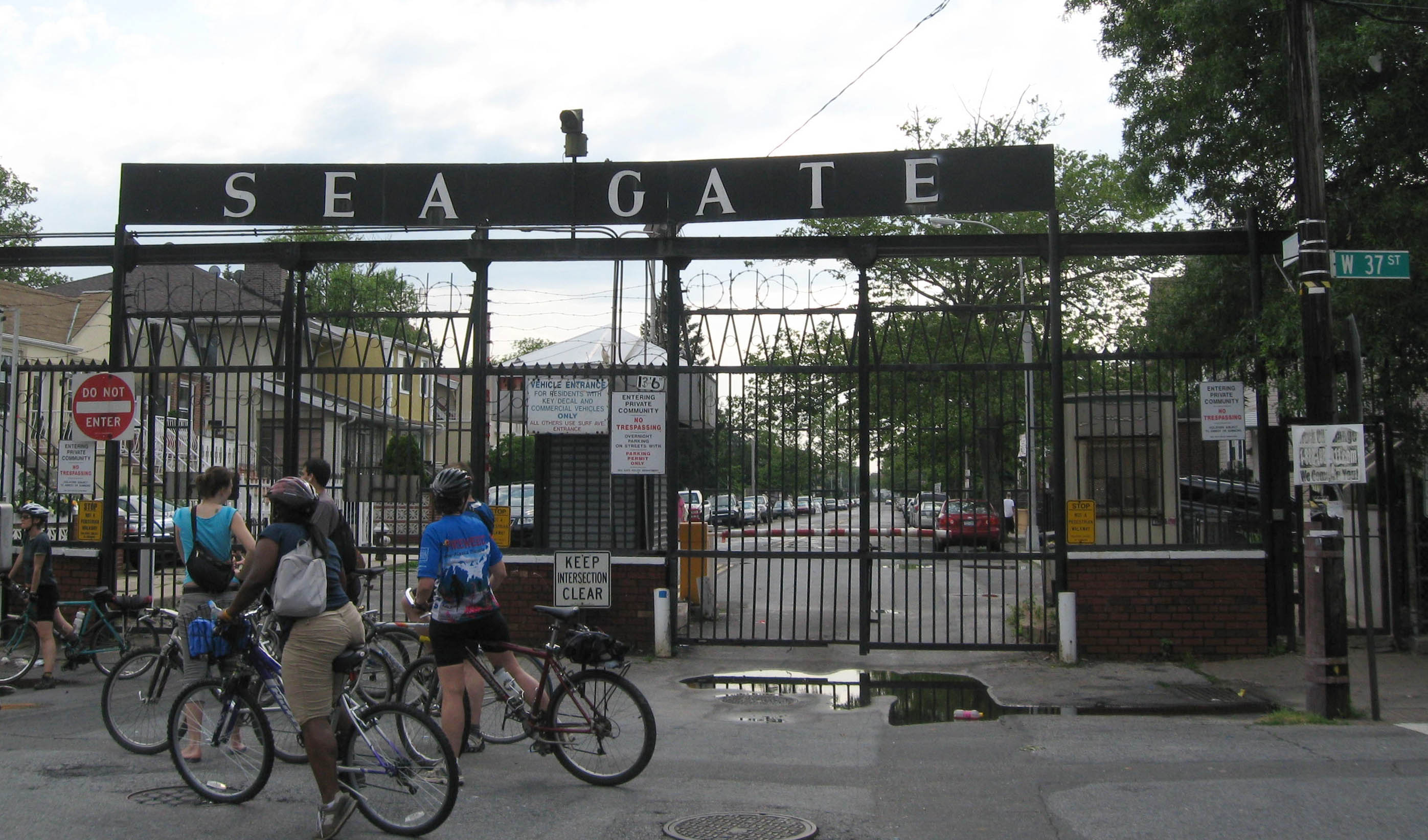 Looking west at Sea Gate Brooklyn Neptune Avenue residential gate on a clearing June afternoon. Main gate is a few blocks south, on Surf Avenue.